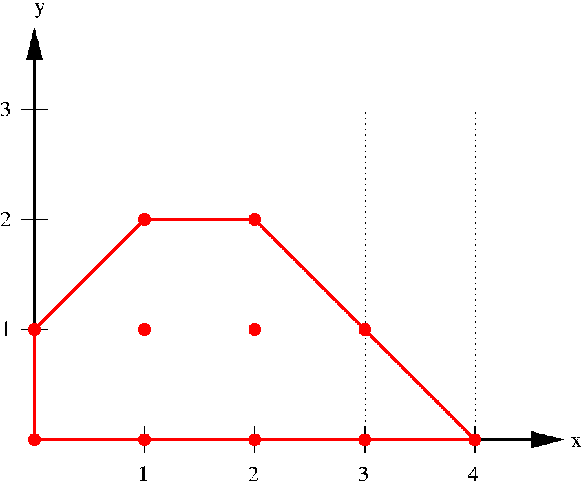 Convex hull of some points in the two-dimensional plane.